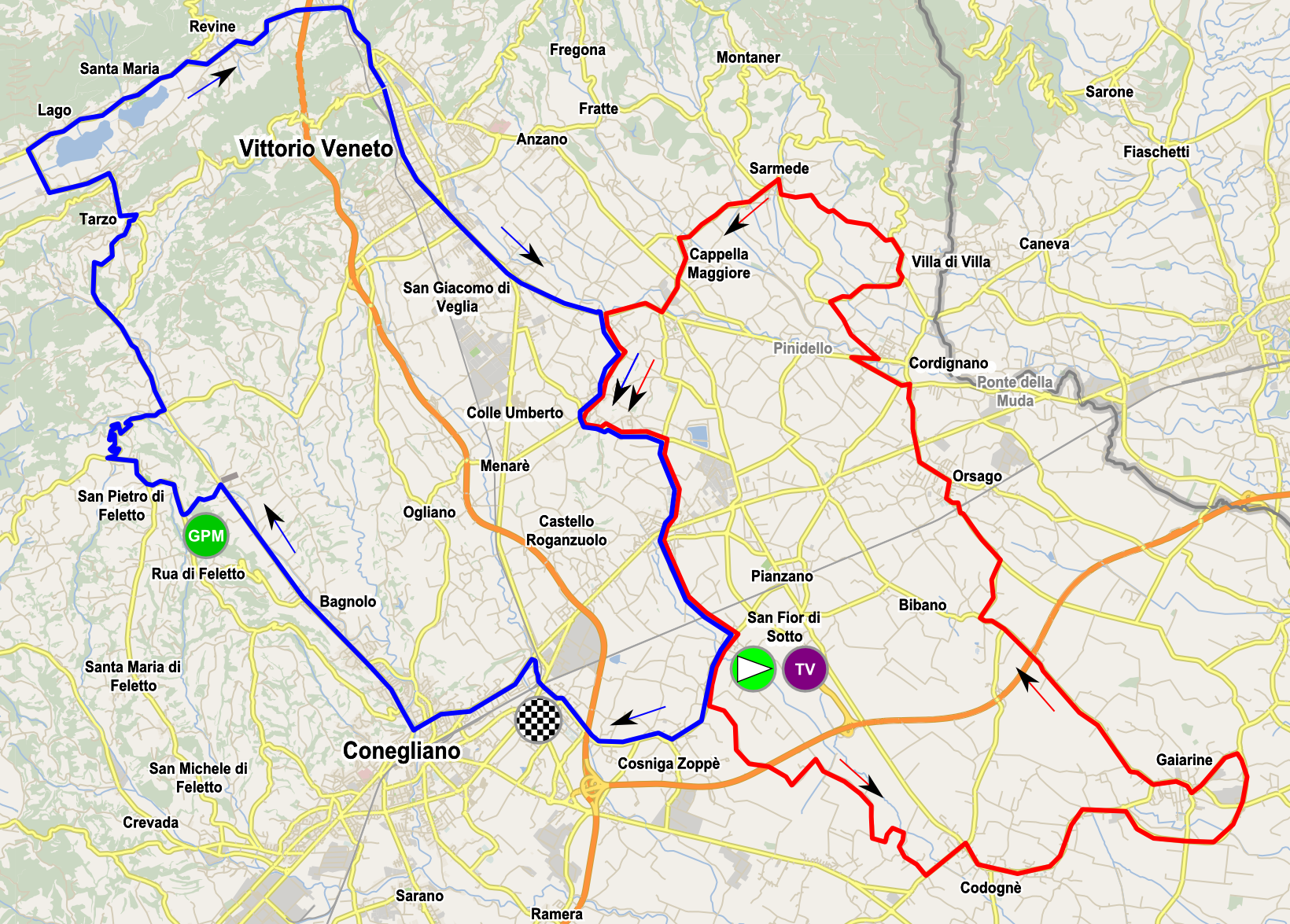 Map of stage 3 of Giro donne 2017.